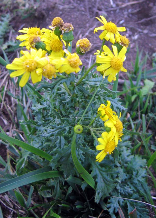 Flora Stare planine, should be Senecio rupestris Waldst. & Kit. synonym of Senecio squalidus L.